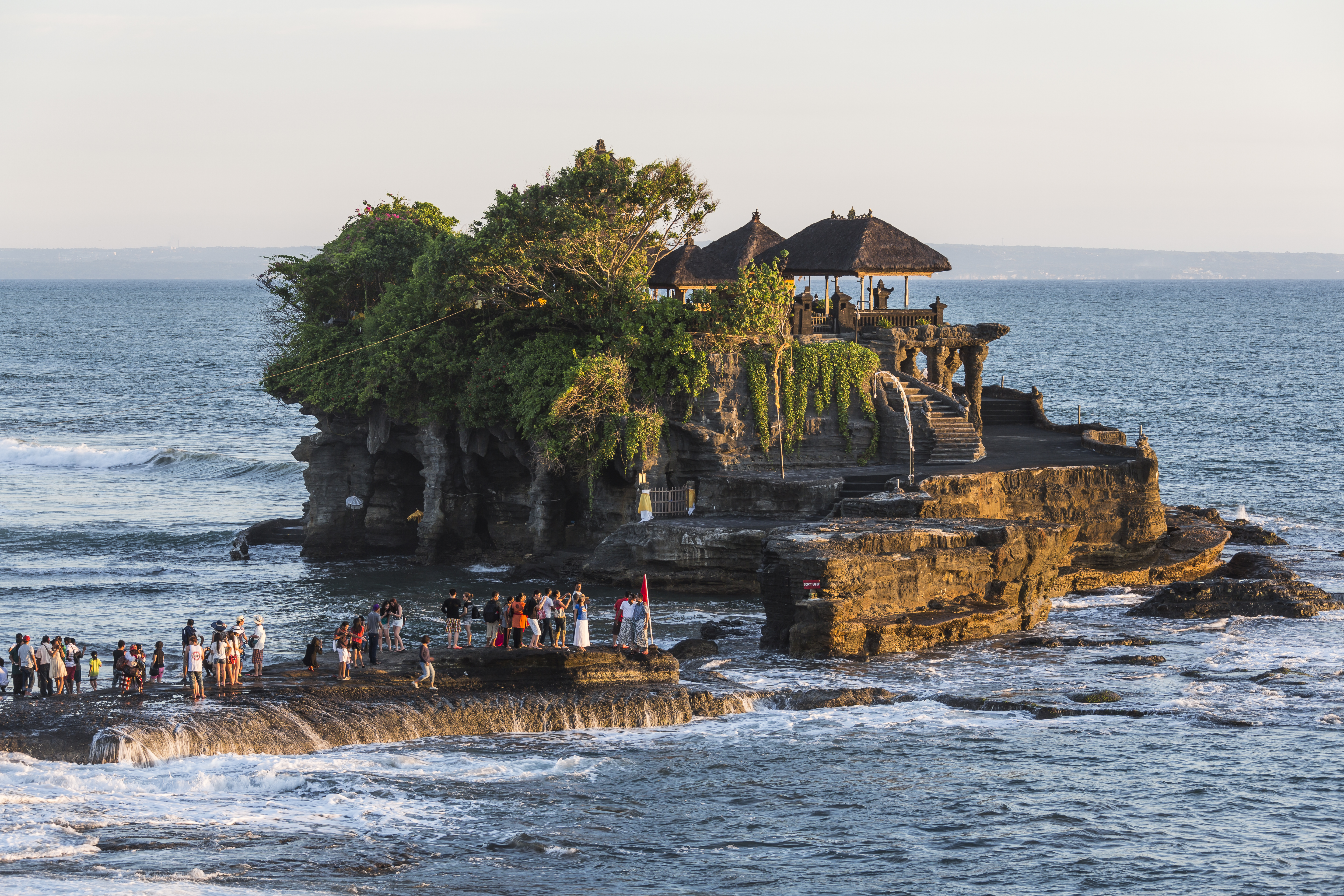 Tanah Lot, Bali, Indonesia: Pura Tanah Lot at sunset